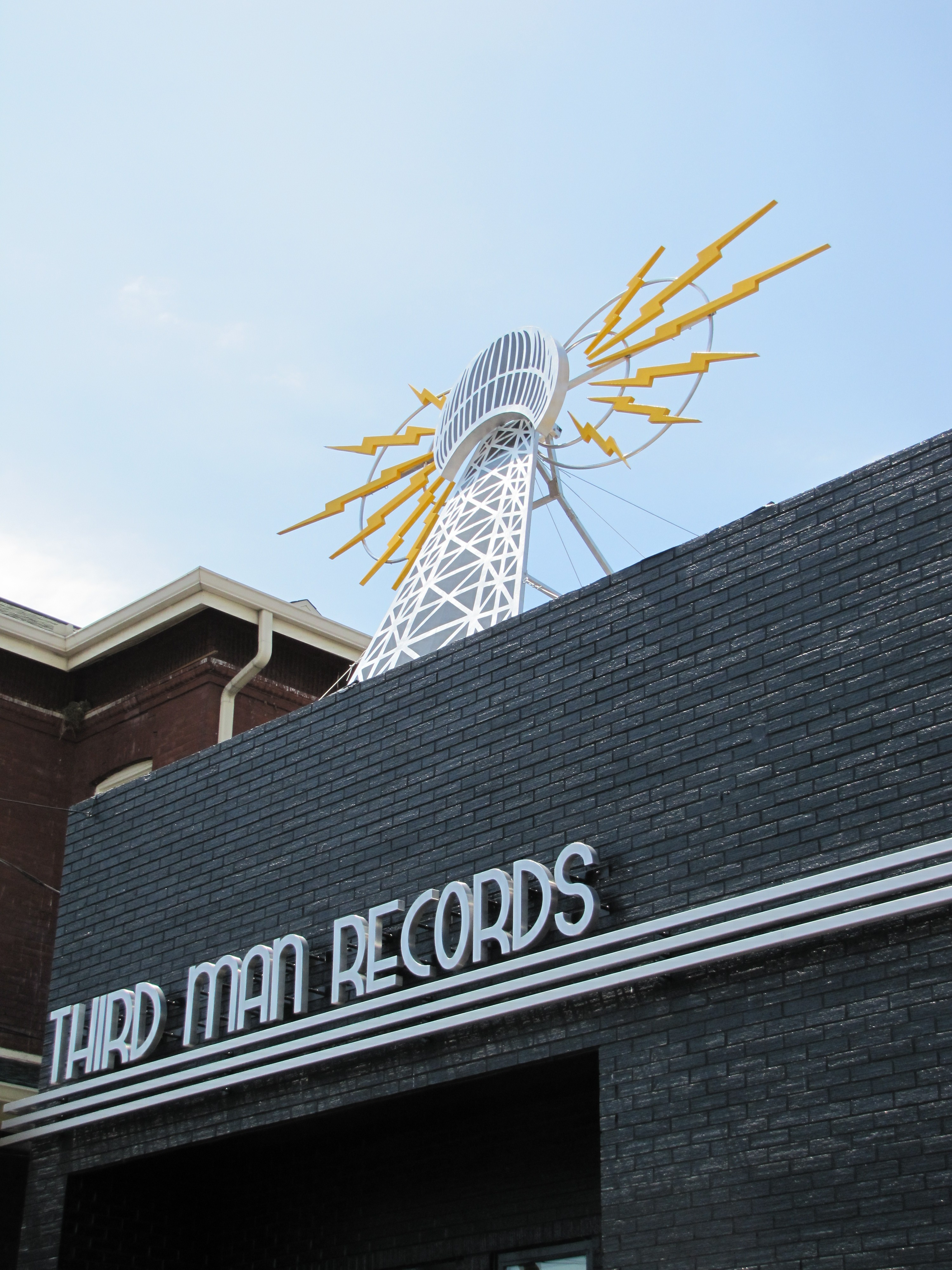 The Third Man Records building in Nashville, TN (April 30, 2010)